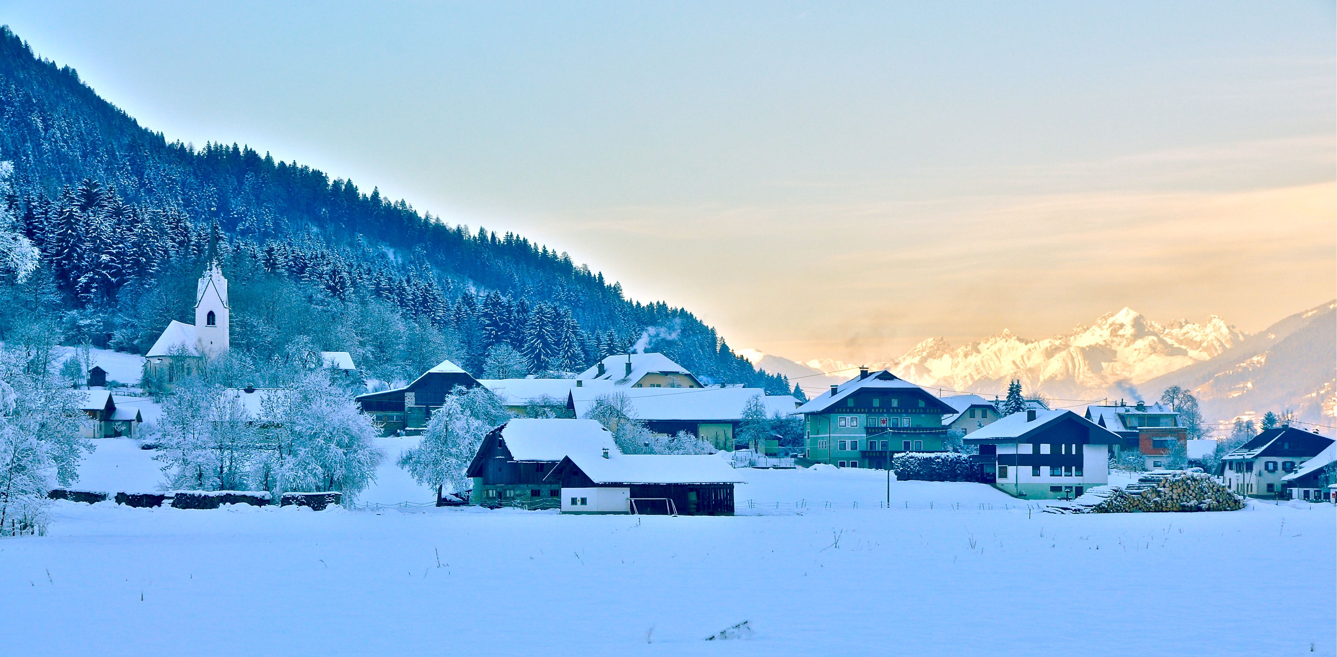 East view at Gajach (with the Lienzer Dolomites in the background), municipality Steinfeld, district Spittal an der Drau, Carinthia, Austria